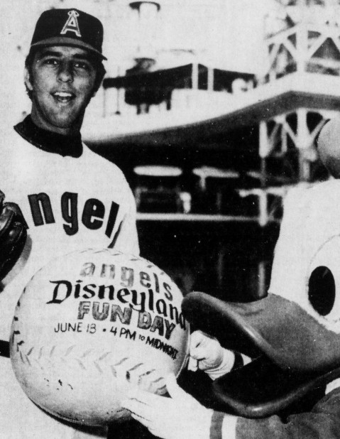 Professional baseball player Clyde Wright with the Disney character Donald Duck holding a baseball advertising the Angels-Disneyland "Fun Day" on June 13, 1972.